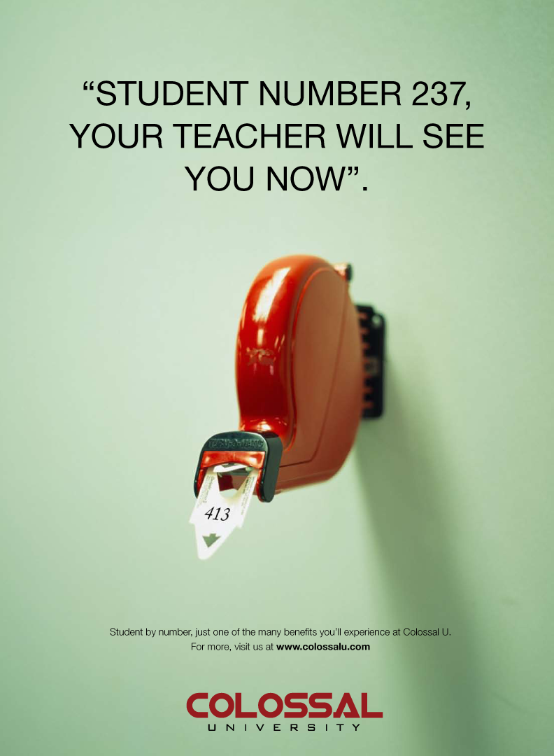 This as is part of our Algoma U campaign. In order to illustrate the virtues of a small university we created a fictional campaign for Colossal U - the place that is everything Algoma isn't.